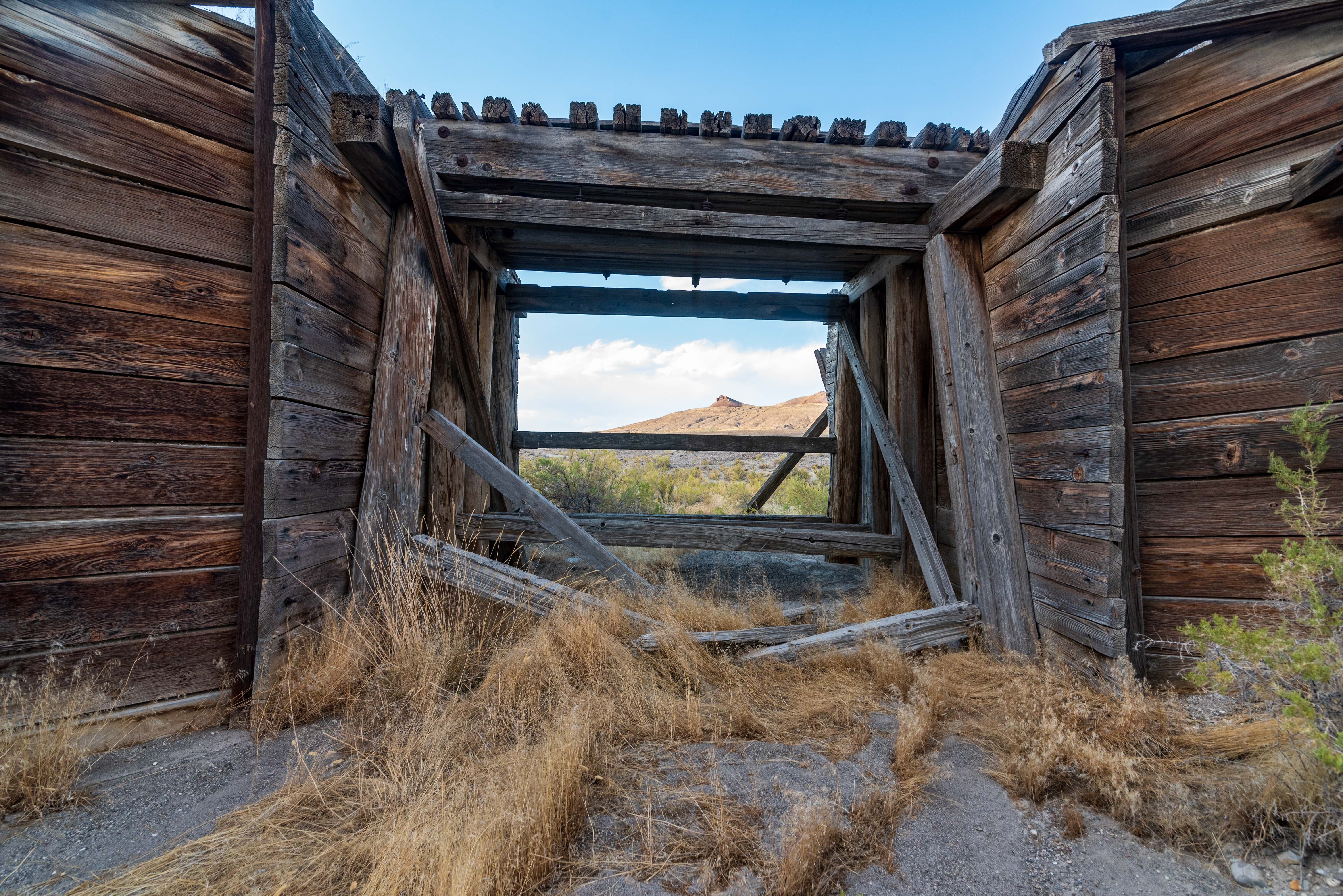 Single stringer trestle with large wing-walls. Part of the fristTranscontinental Railroad Grade consisting of an abandoned 13.5 mile segment of the original 1869 grade